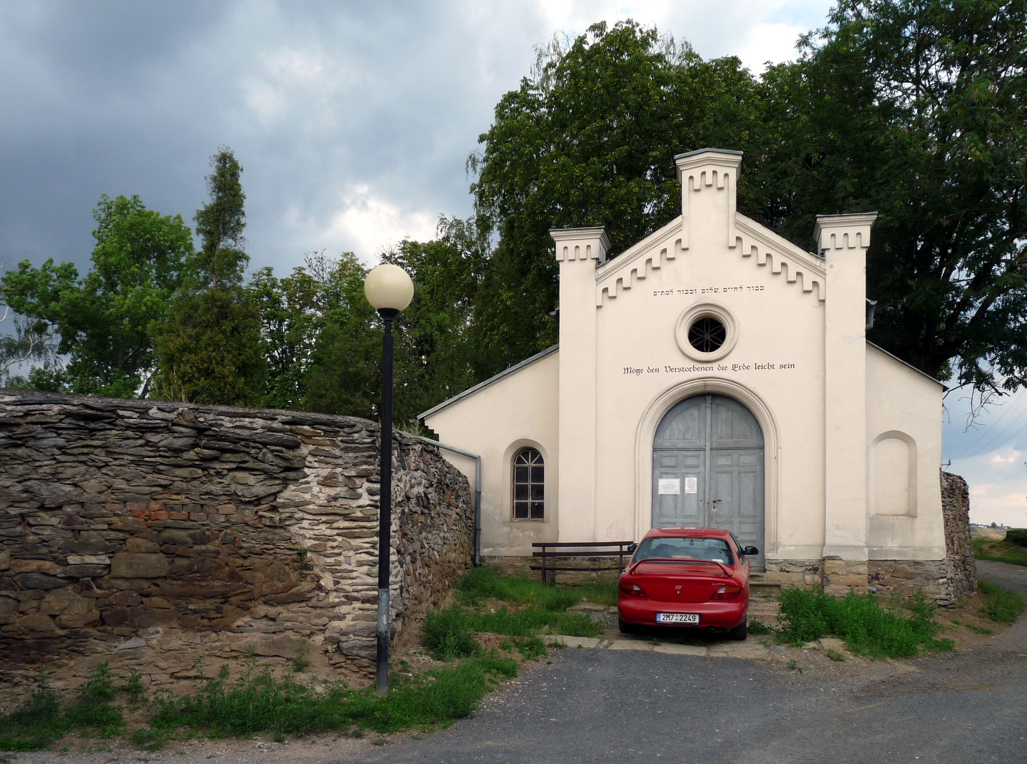 Ceremonial hall in the Jewish cemetery in the town of Úsov, Šumperk District, Czech Republic.